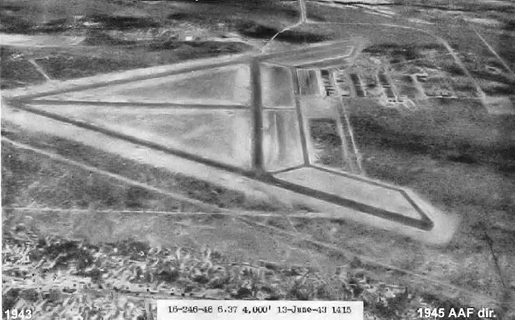 Coolidge Army Airfield AZ 13 June 1943